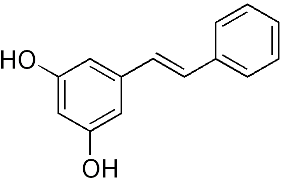 chemical structure of pinosylvin